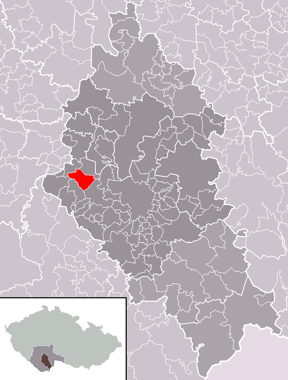 Location of Žabovřesky municipality within České Budějovice District and administrative area of České Budějovice as a Municipality with Extended Competence.